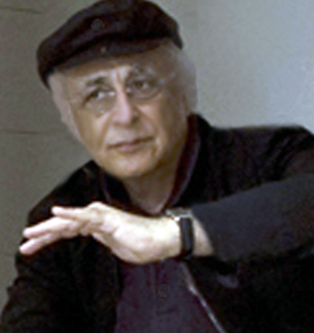 Abbas Gharib, photographed at his Studio, 2088